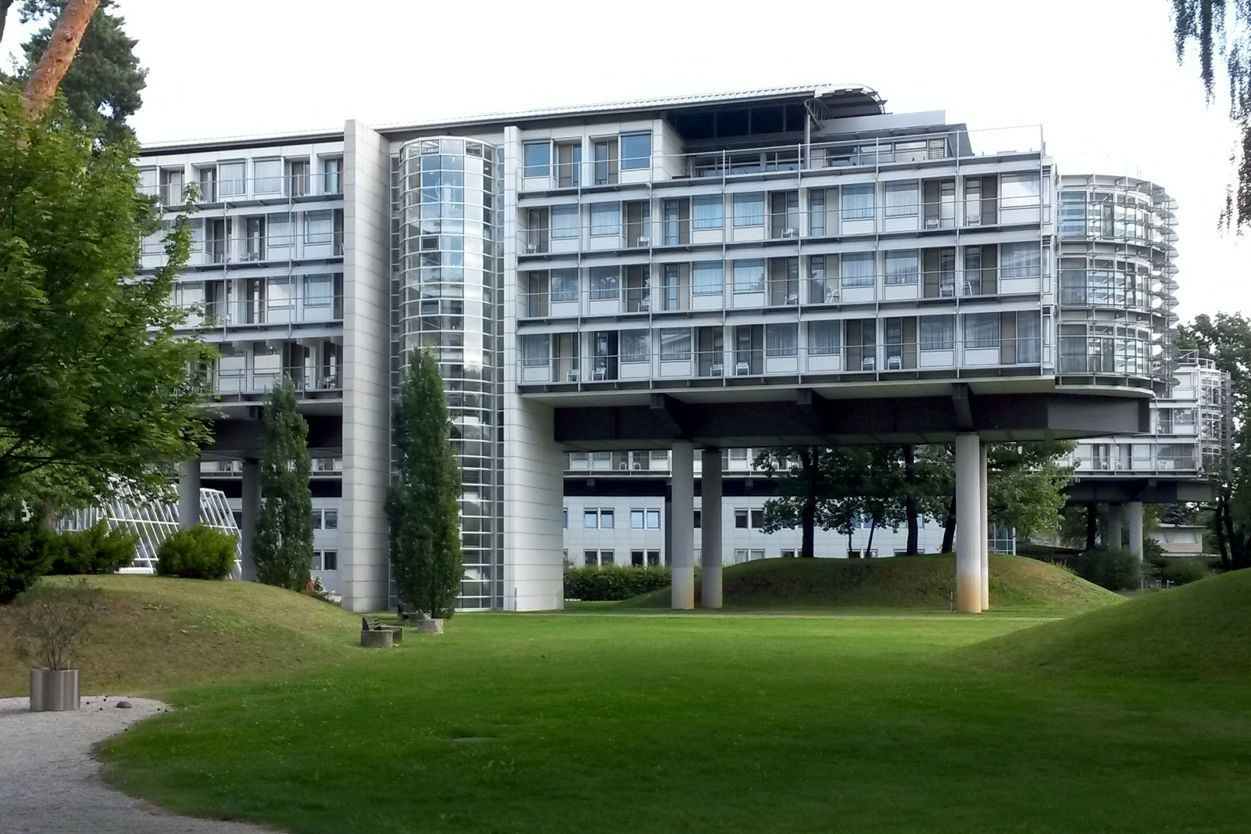 Kongresshotel Potsdam (Germany), detail of one of the airship-like hotel wings. This construction style intends to point to the location of historic Luftschiffhafen (airship port) Potsdam.